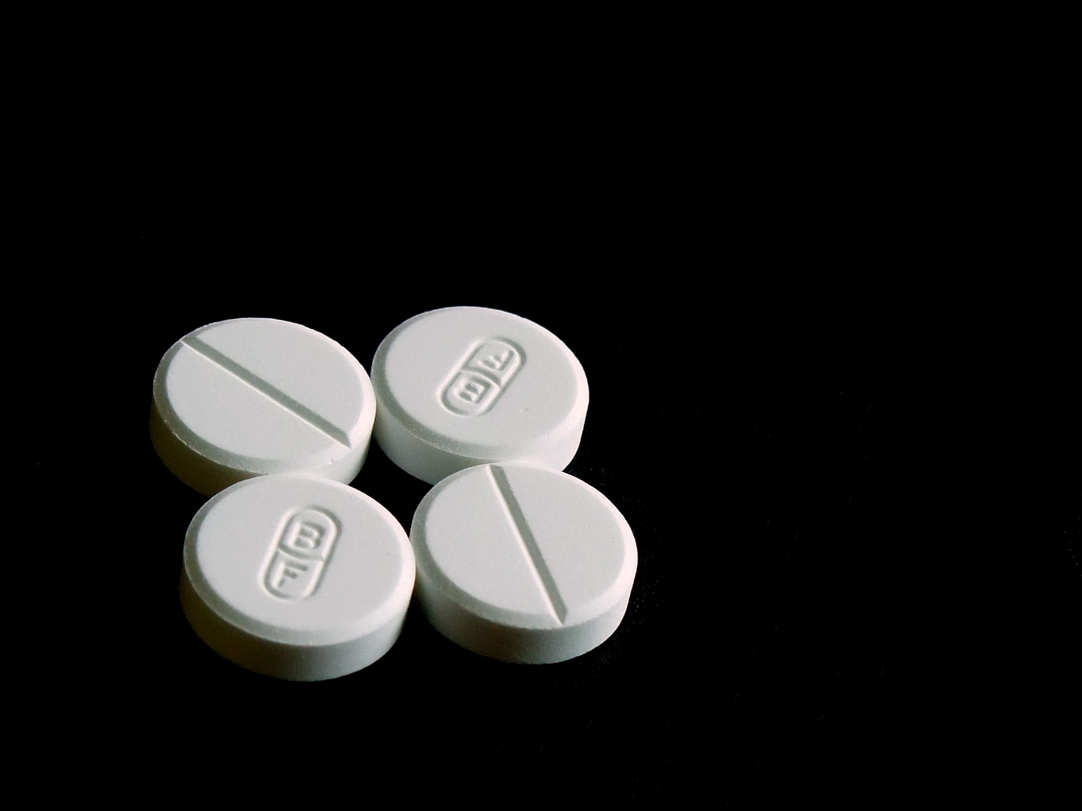 Paracetamol, a widely used over-the-counter analgesic and antipyretic. 500 mg tablets.